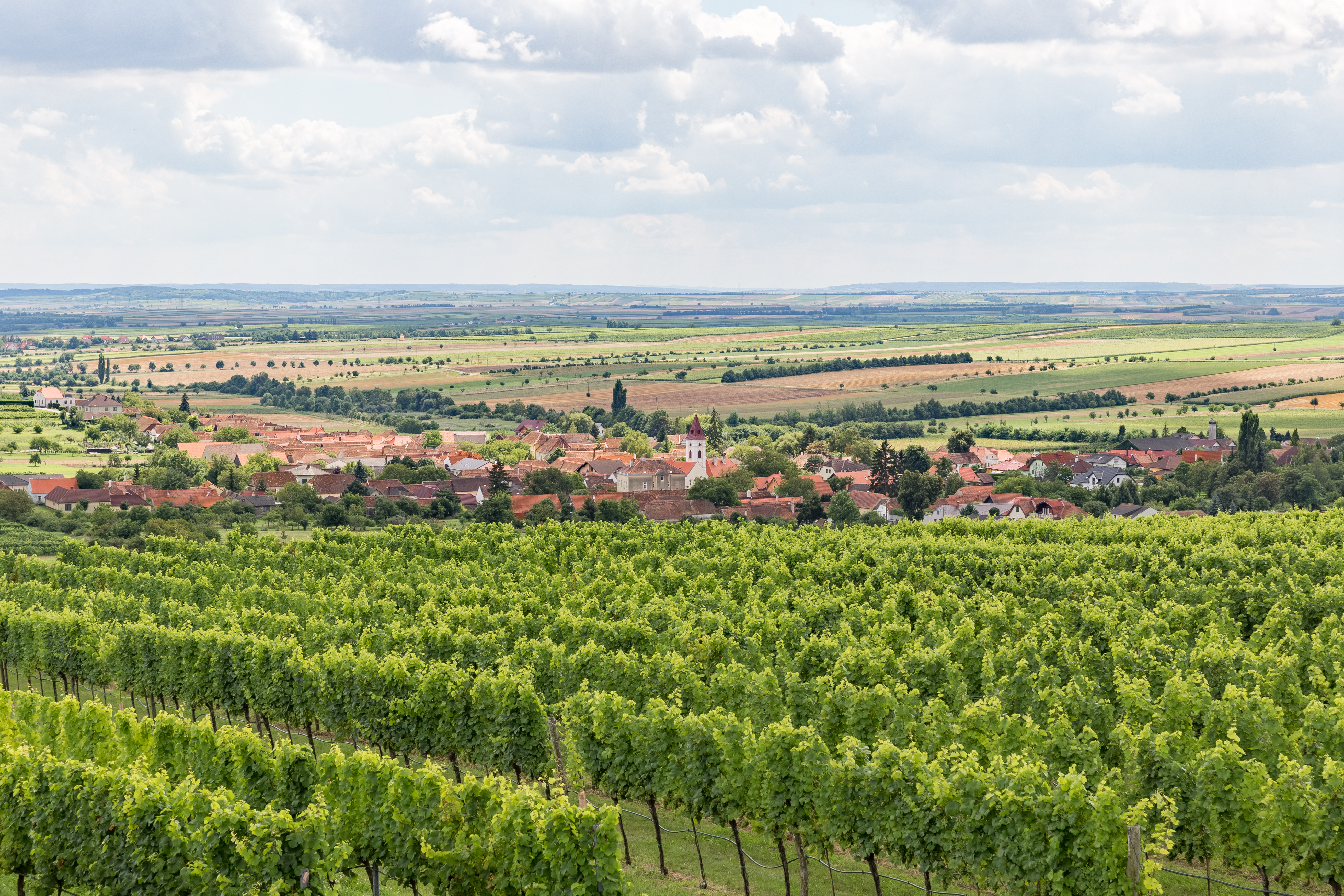 View from the "holy stone!, municipality Mitterretzbach, Weinviertel, Lower Austria